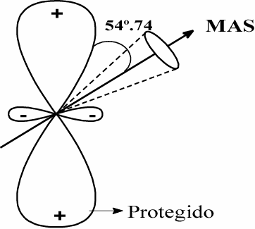 Demonstração da proteção magnética do núcleo em estudo, o ângulo mágico é 54,47º. O ângulo mágico está entre o campo magnético externo e o eixo de qualquer amostra que está sob rotação.